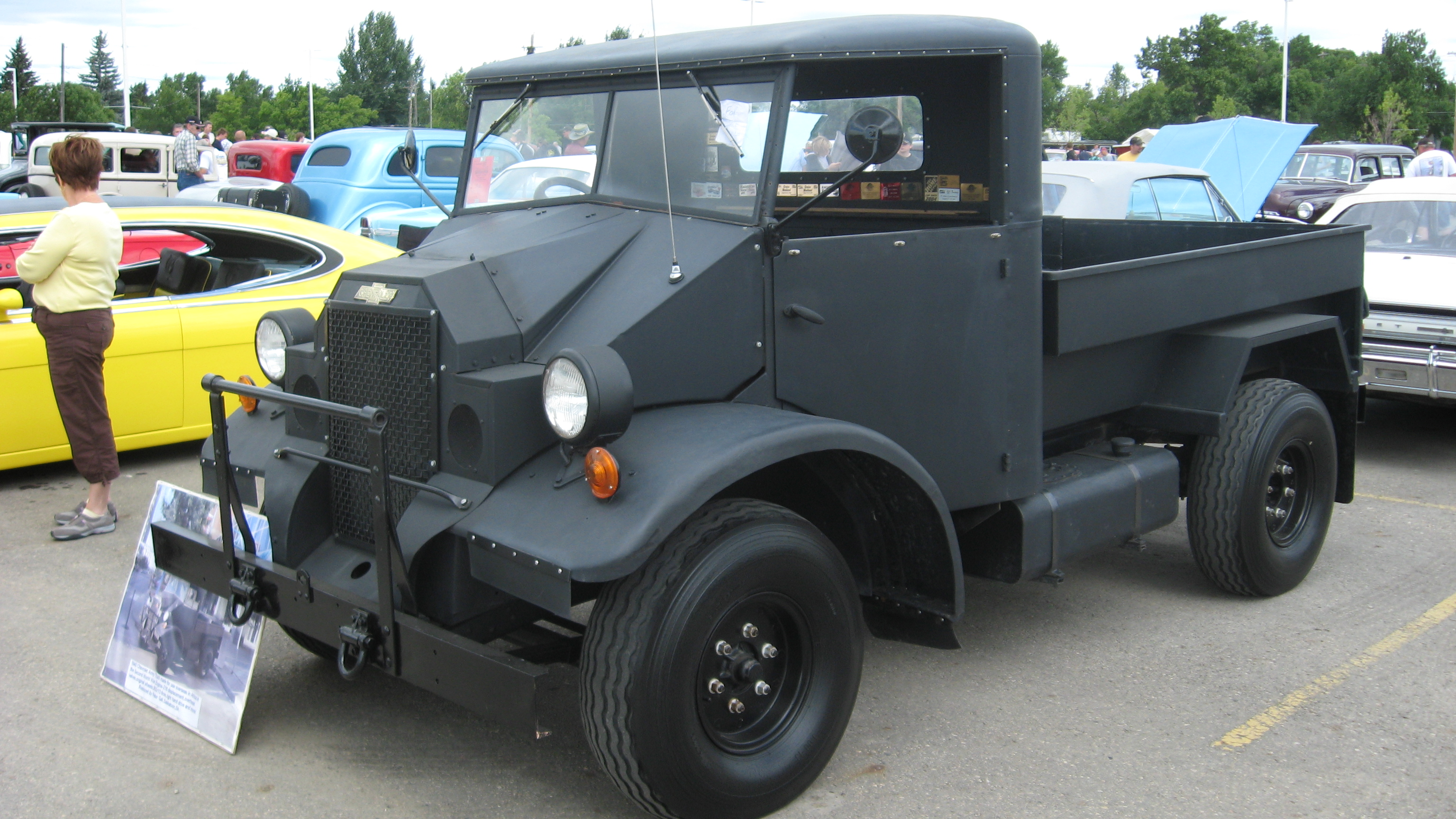 CMP truck, shot at local car show/swap meet